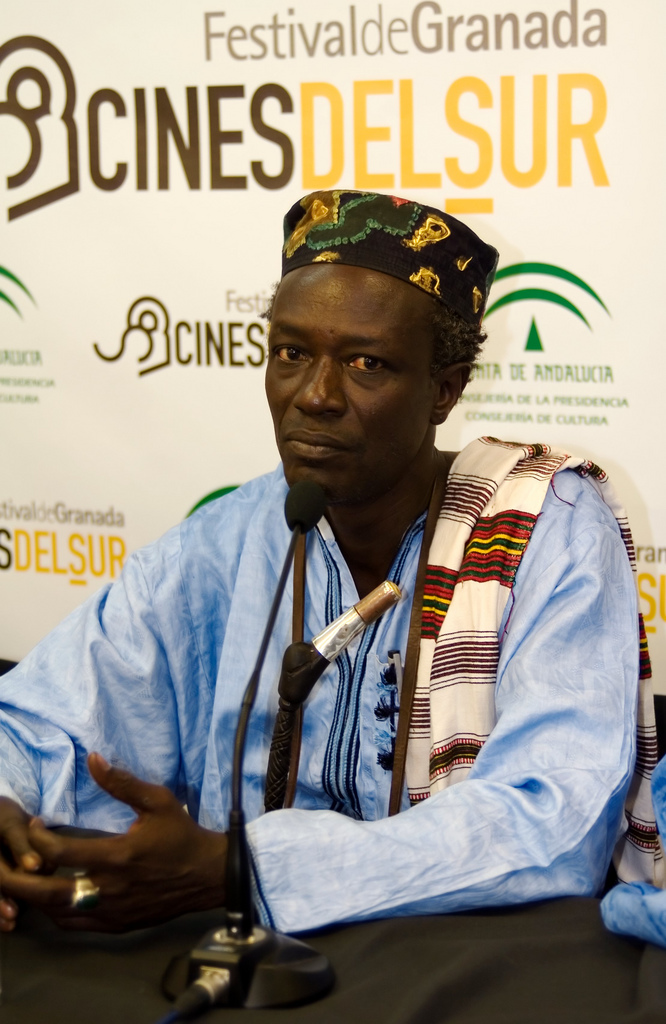 The Senegalese film director Moussa Sene Absa during the presentation of his film "Teranga Blues"